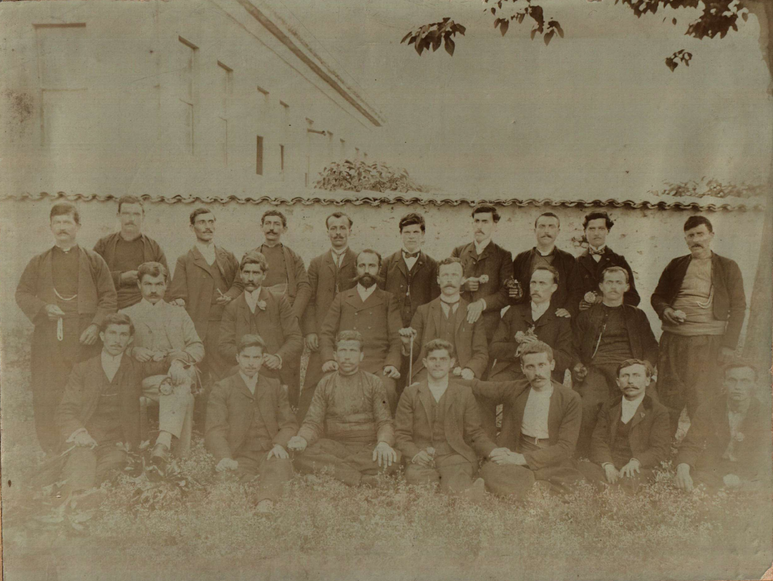 Dimitar Karabashev, Pencho Kavrakirov, Gligor Tomov Fotselarov, Toma Kostadinov Garkov in Enidzhe Vardar